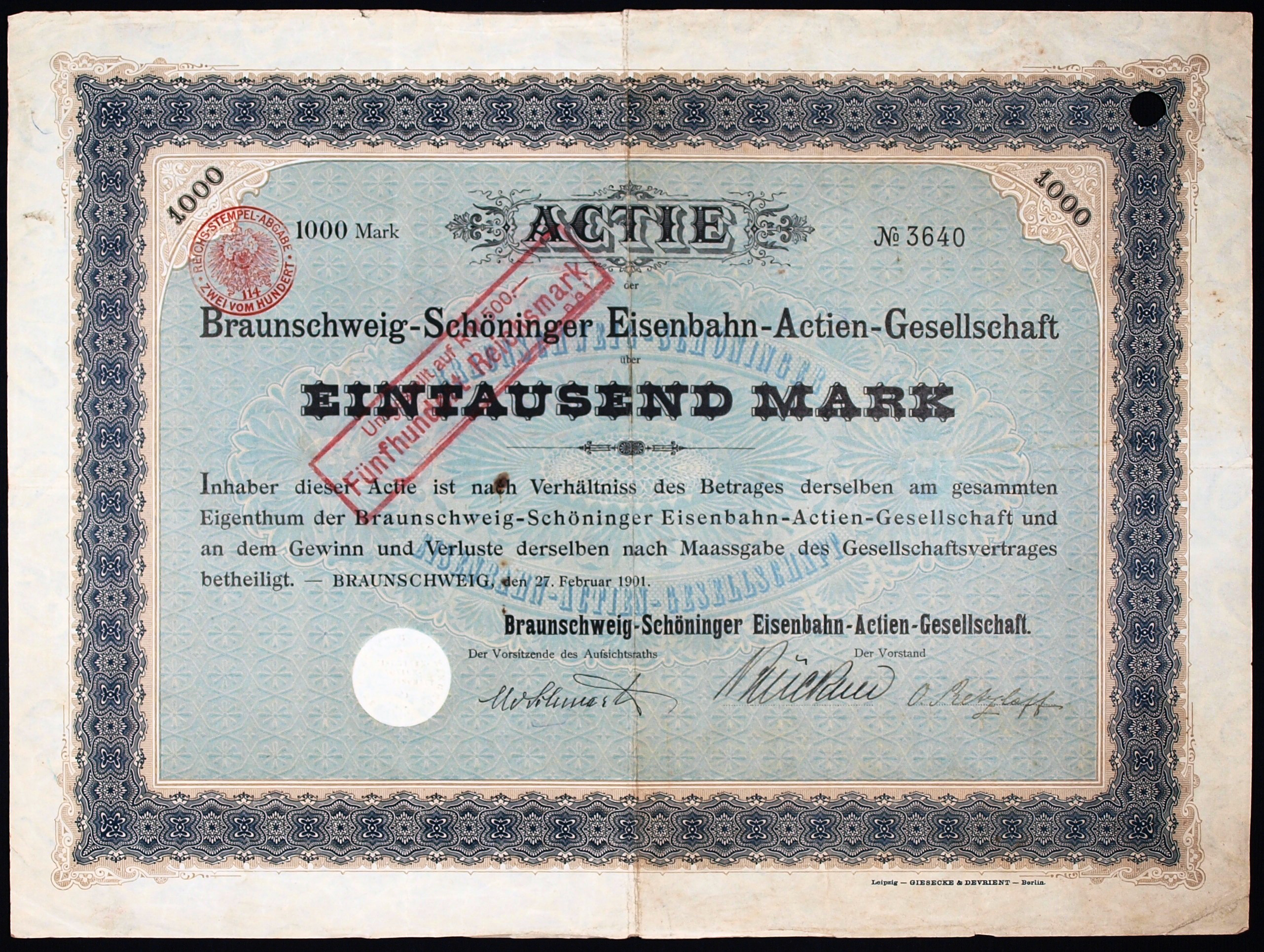 Share of the Braunschweig-Schöninger Eisenbahn-AG, issued 27. February 1901